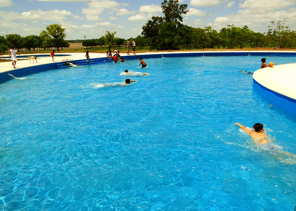 PARQUE ACUATICO TERMAL MONTE CASEROS